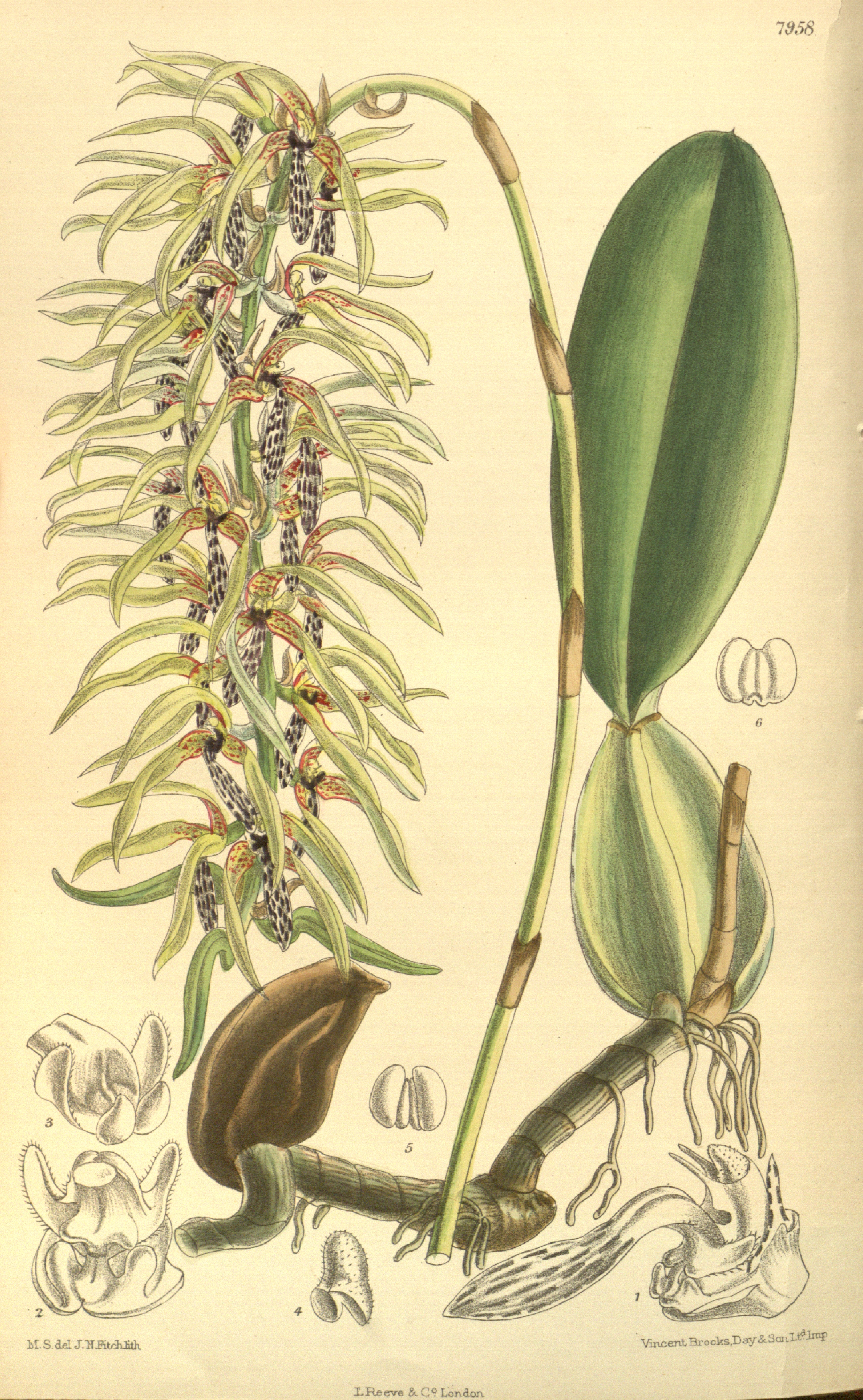 Illustration of Bulbophyllum weddelii